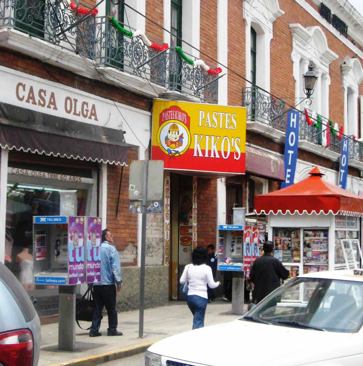 Pastes Kiko's, a chain specializing in pastes located in Pachuca Mexico